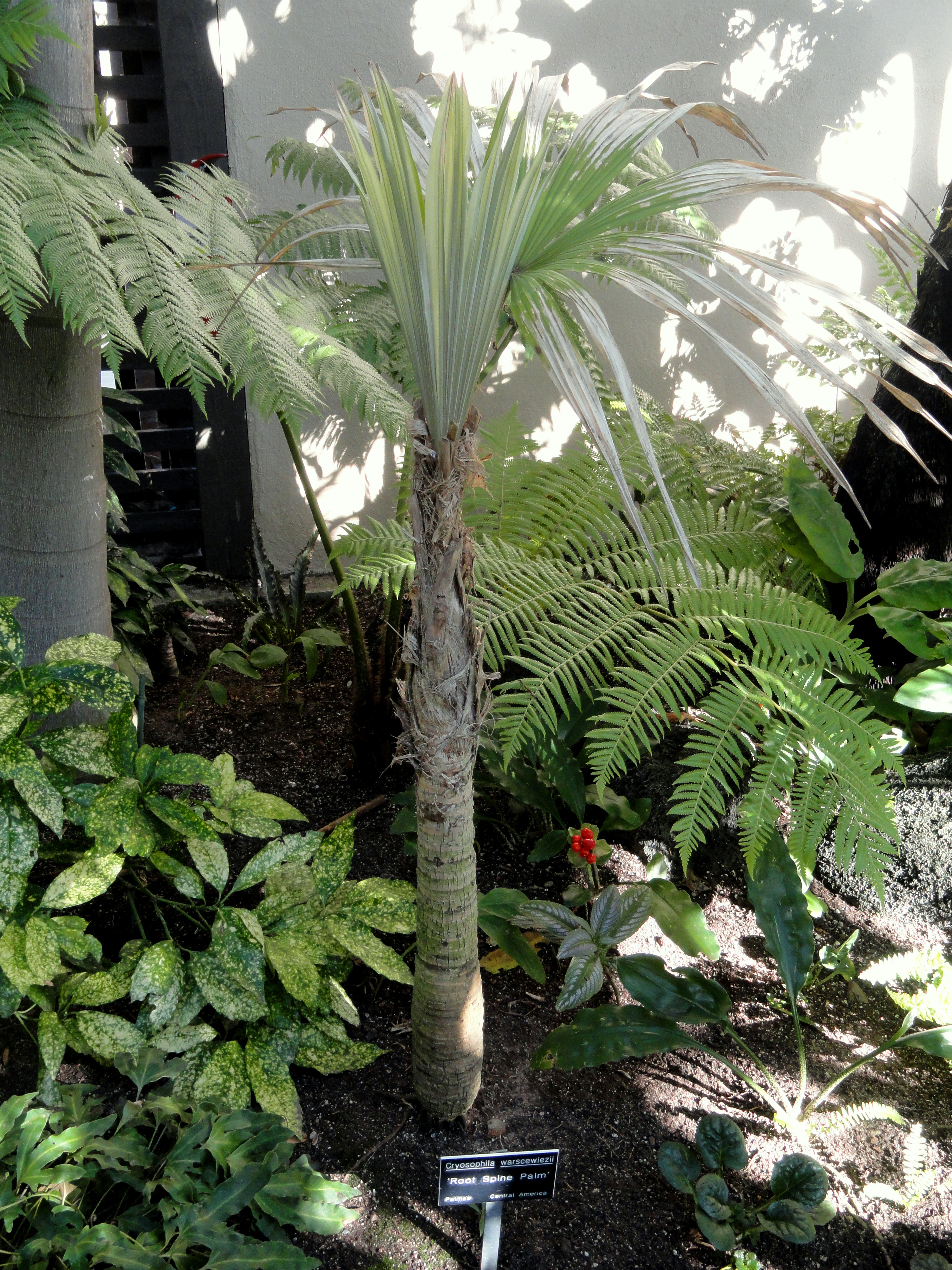 Botanical specimen in the Balboa Park Botanical Building, Balboa Park, San Diego, California, USA.